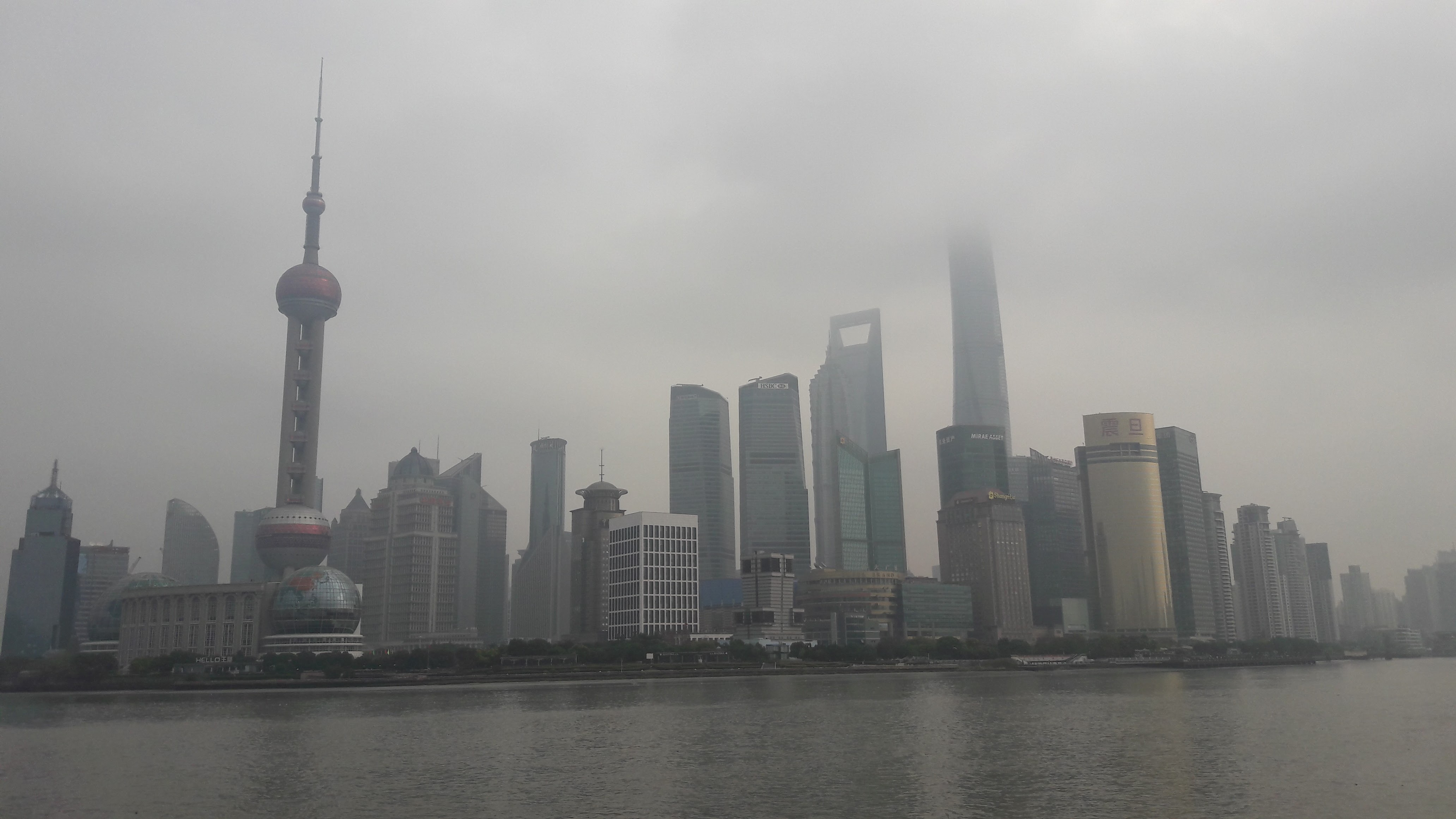 Waitan, Shangai skyline